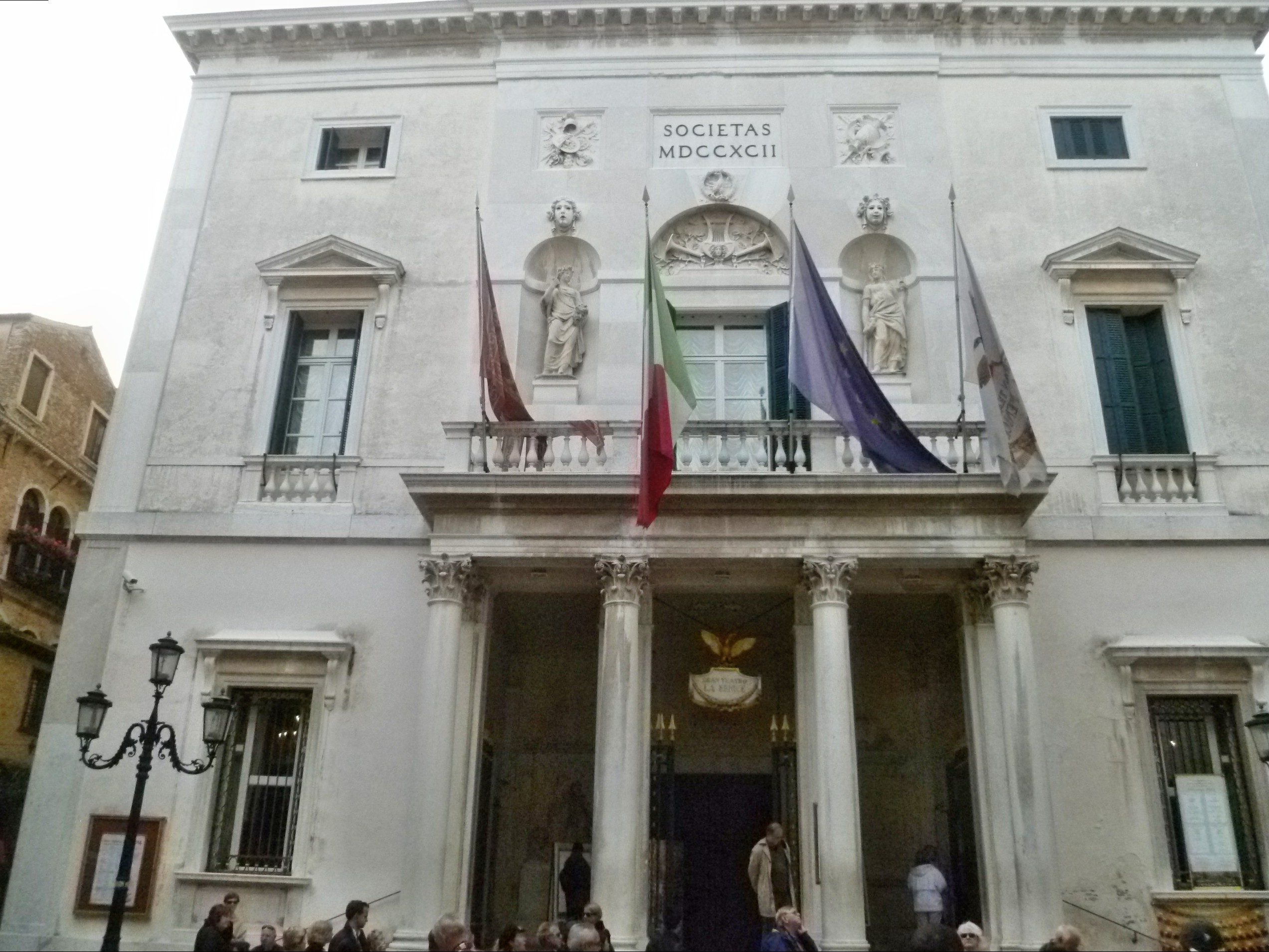 Facade of Teatro La Fenice, opera house in Venice, Italy